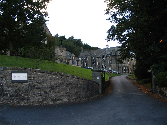 Founded in 1512, Giggleswick School received its Royal Charter in 1553.